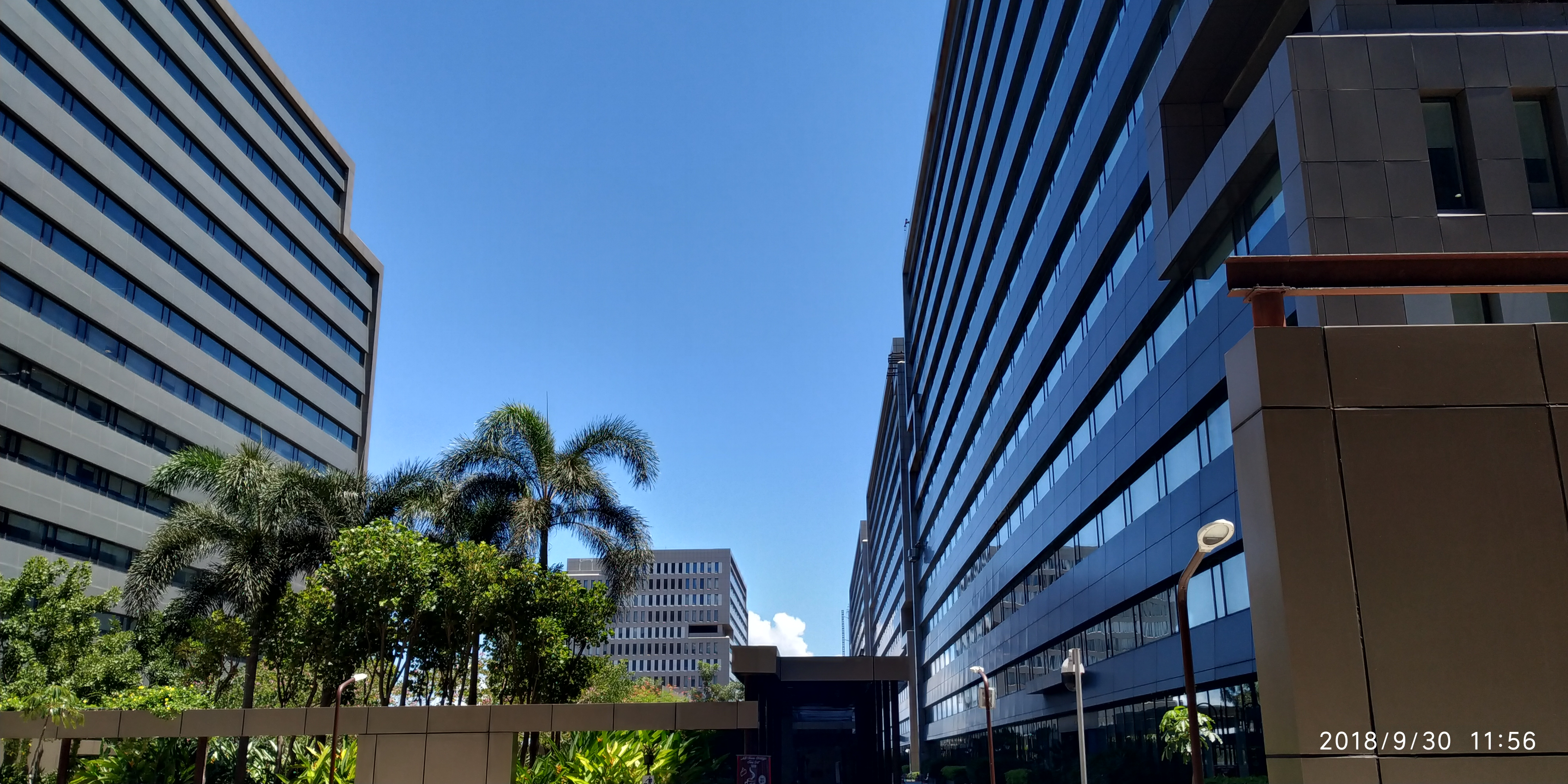 Ramanujan IT City Full view (Excluding Neville Blocks)